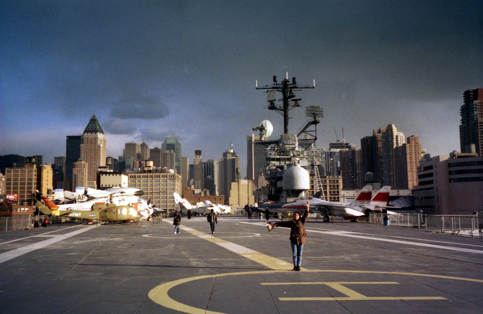 exhibits on the USS Intrepid aircraft carrier, in the harbor of New York